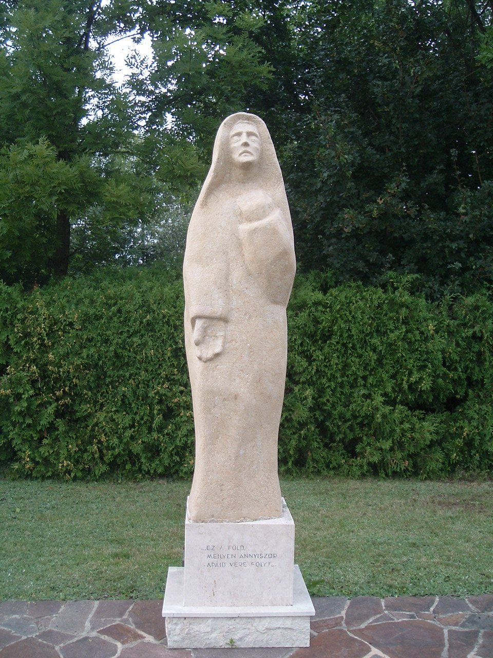 The memorial of the world wars in Siget in der Wart (Őrisziget) "Ez a föld melyen annyiszor apáid vére folyt"